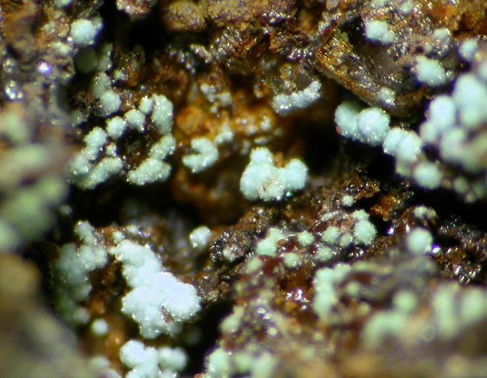 Attikaite Locality: Christiana Mine, Kamariza Mines (Kamareza Mines), Agios Konstantinos [St Constantine] (Kamariza), Lavrion District Mines, Lavrion (Laurion; Laurium) District, Attikí (Attica; Attika) Prefecture, Greece (Locality at ) Field of view 5 mm. Specimen and photo Leon Hupperichs.